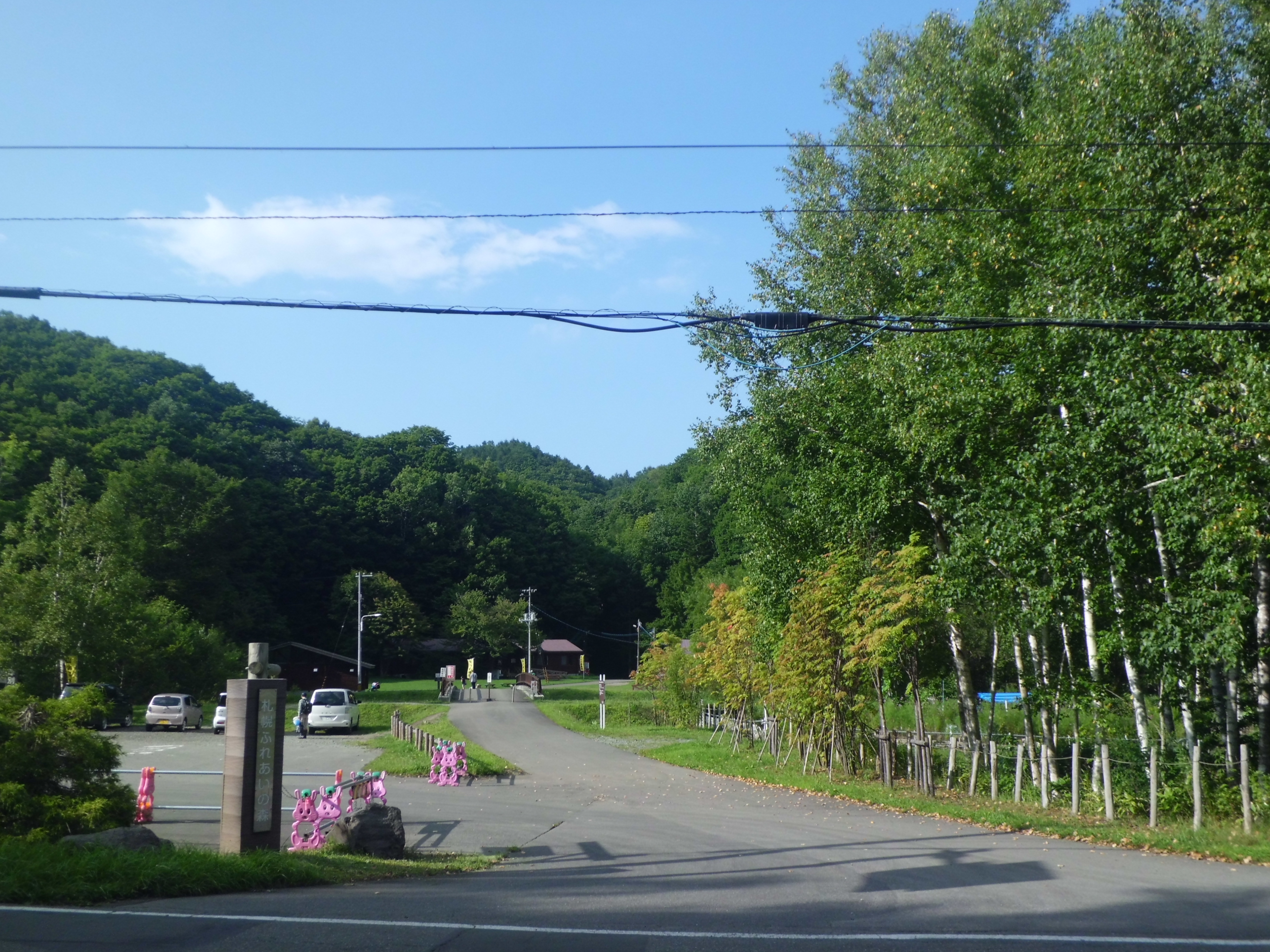 Sapporo Fureai-no-Mori